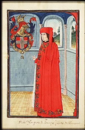 Statuts, Ordonnances et Armorial de l'Ordre de la Toison d'Or (Statutes, Ordonnances and armorial of the Order of the Golden Fleece) Place of origin, date: Southern Netherlands; 1473. Added sections: Southern Netherlands; 1478 or shortly after and 1491 or shortly after Material: Vellum, ff. 86, 249x187 (167x106) mm, 23 lines, littera cursiva (lettre bourguignonne). French. Binding: 18th-century brown leather Decoration: 1 full-page miniature (170x115 mm) with border decoration; 92 miniatures (185/155x120/100 mm); 1 historiated initial (80x90 mm) with border decoration; decorated initials with border decoration (ff., Added section: miniatures ; 4 drawings for miniatures (not finished) Provenance: Presented in 1473 by Gilles Gobet, King of Arms of the Order of the Golden Fleece, to Charles the Bold, Duke of Burgundy and the other Knights during the Chapter of the Order held at Valenciennes; Treasure of the Golden Fleece, Brussls; taken away by the Treasurer C.-F. Humyn (d. 1735) or his daughter C.Ch. de Corte; by legacy to her daughter M.-L. de Corte, wife of Ph.-E. de Poederlé; purchased in 1781 at the Poederlé sale by G.-J- Gérard of Brussels; acquired in 1832 as part of the Gérard collection (no. A 27)